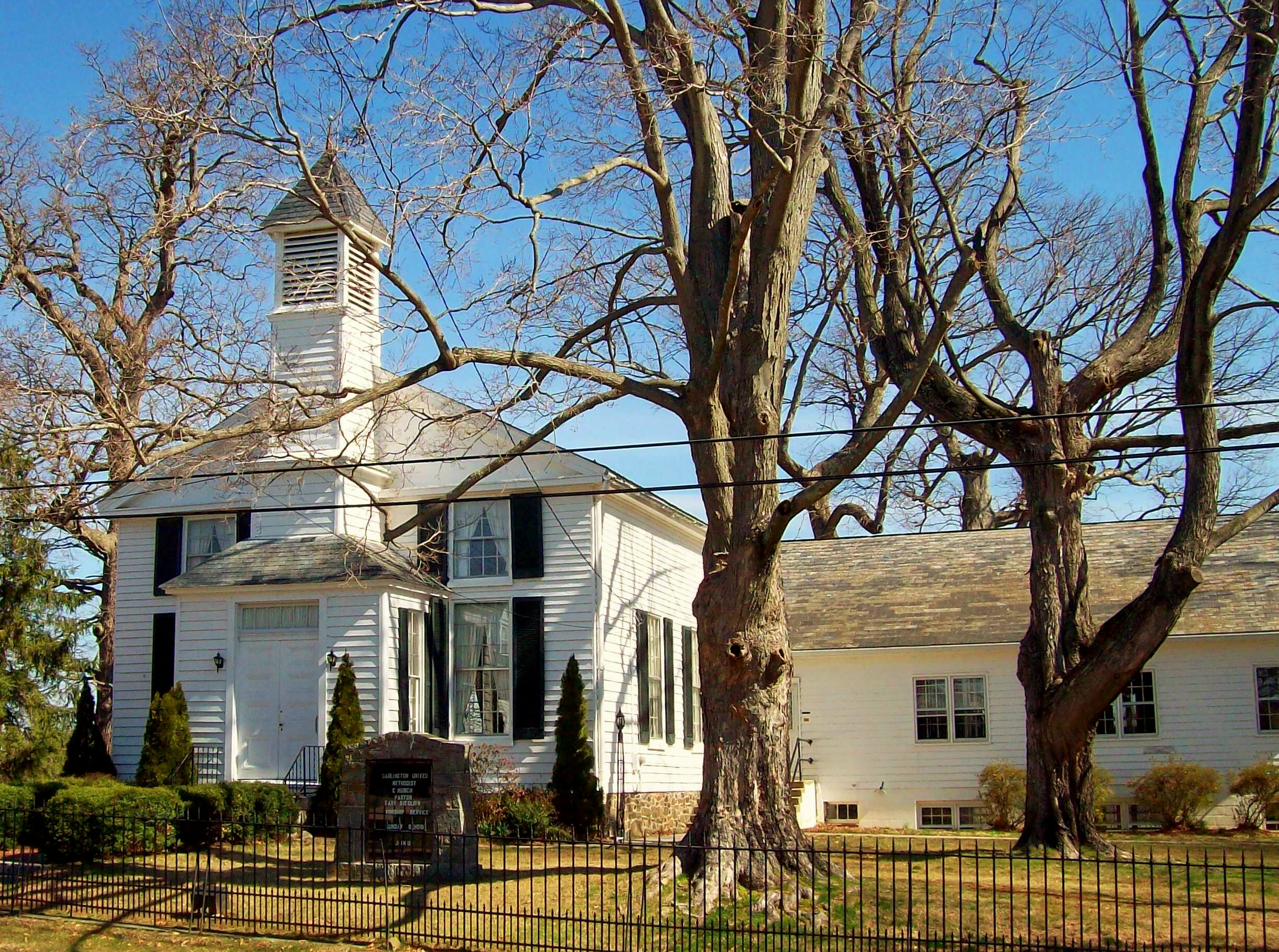 The Darlington United Methodist Church along Shuresville Road